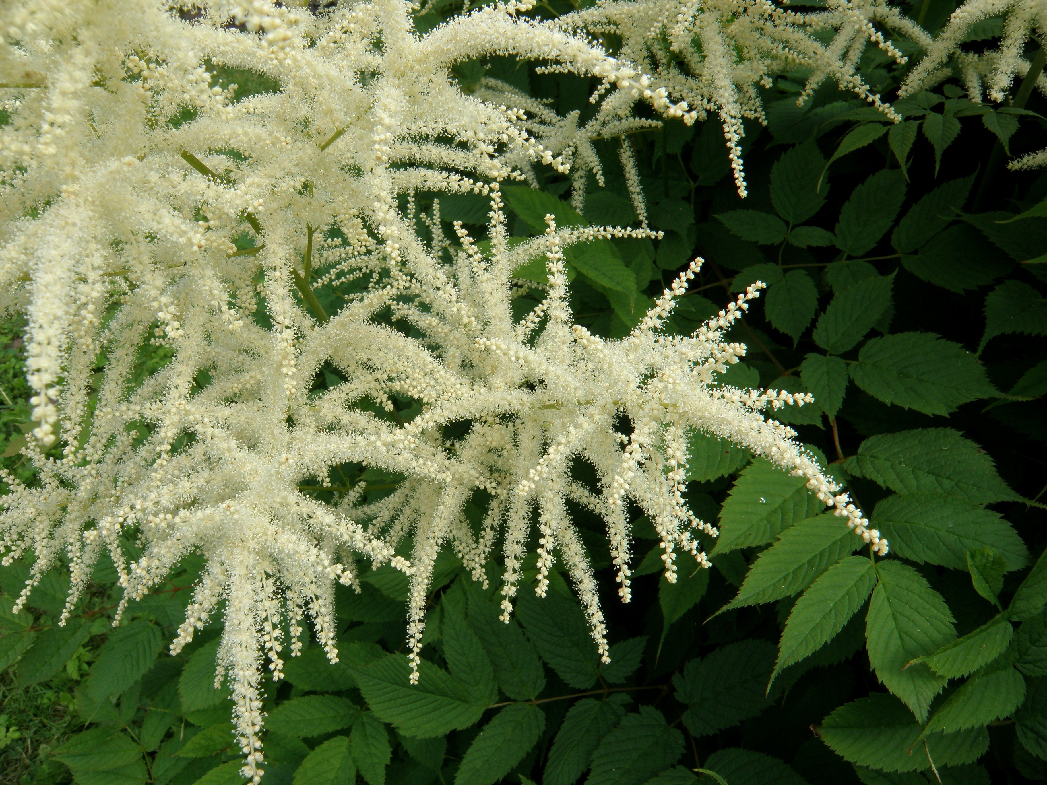 Aruncus dioicus